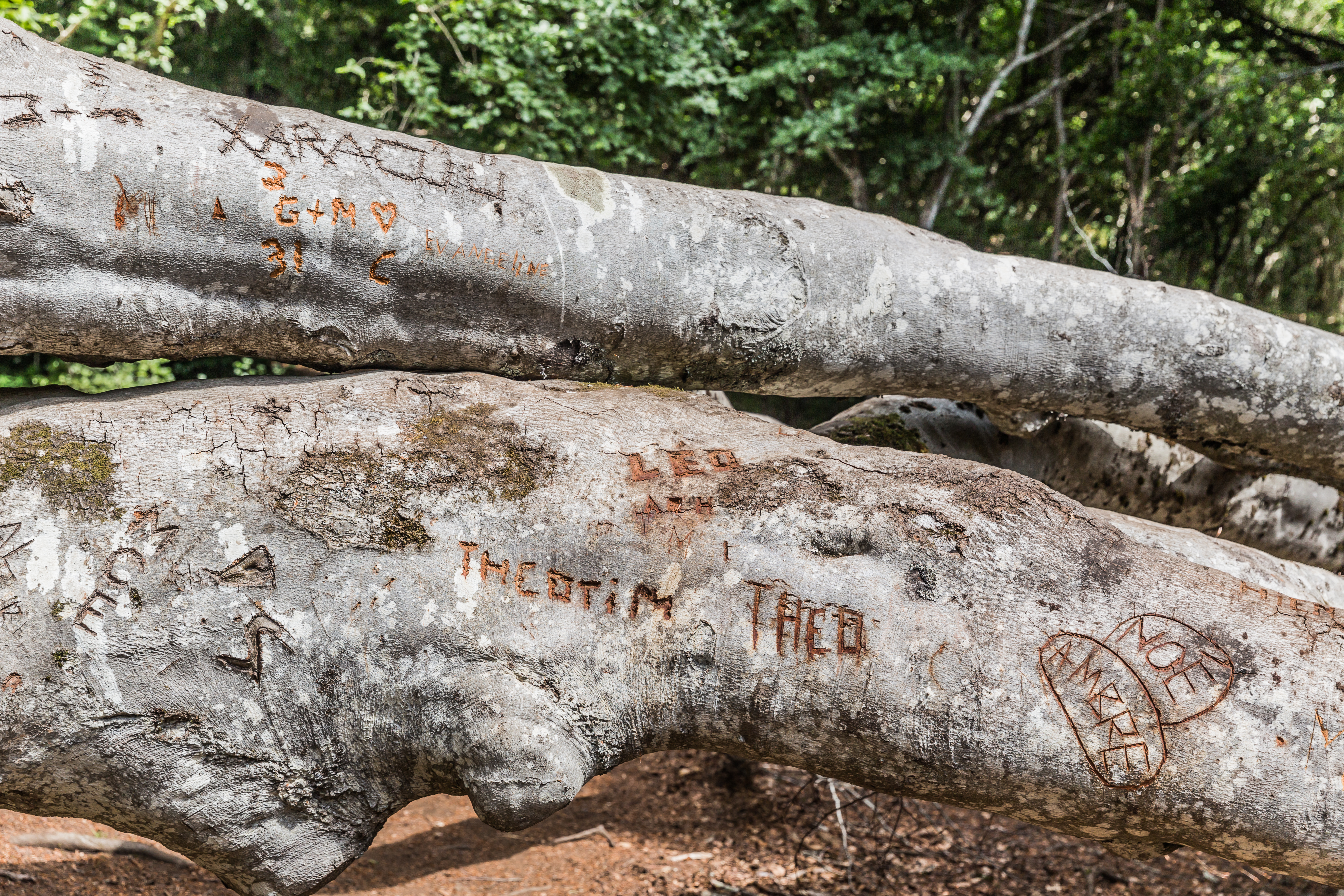 On the puy Pariou (France), lovers took advantage of the fall of the tree.